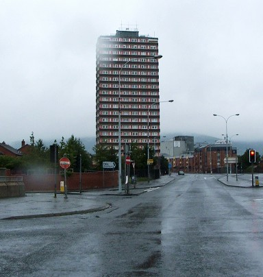 Divis Tower Belfast 2005